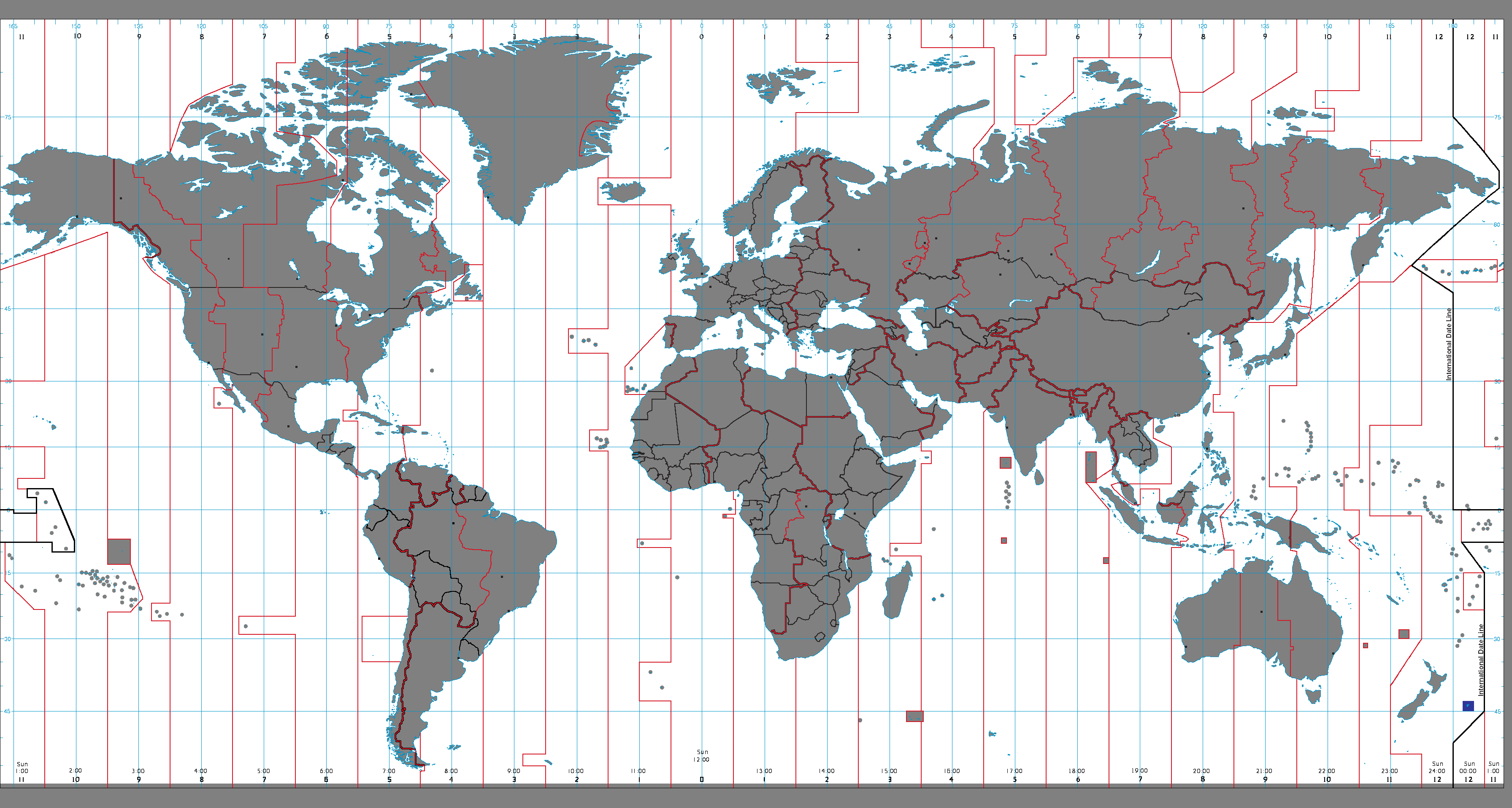 World map of time zones as of June 2008. Highlighting UTC+13:45 Dark Blue: UTC+13:45 during Southern Hemisphere Summer / Northern Winter